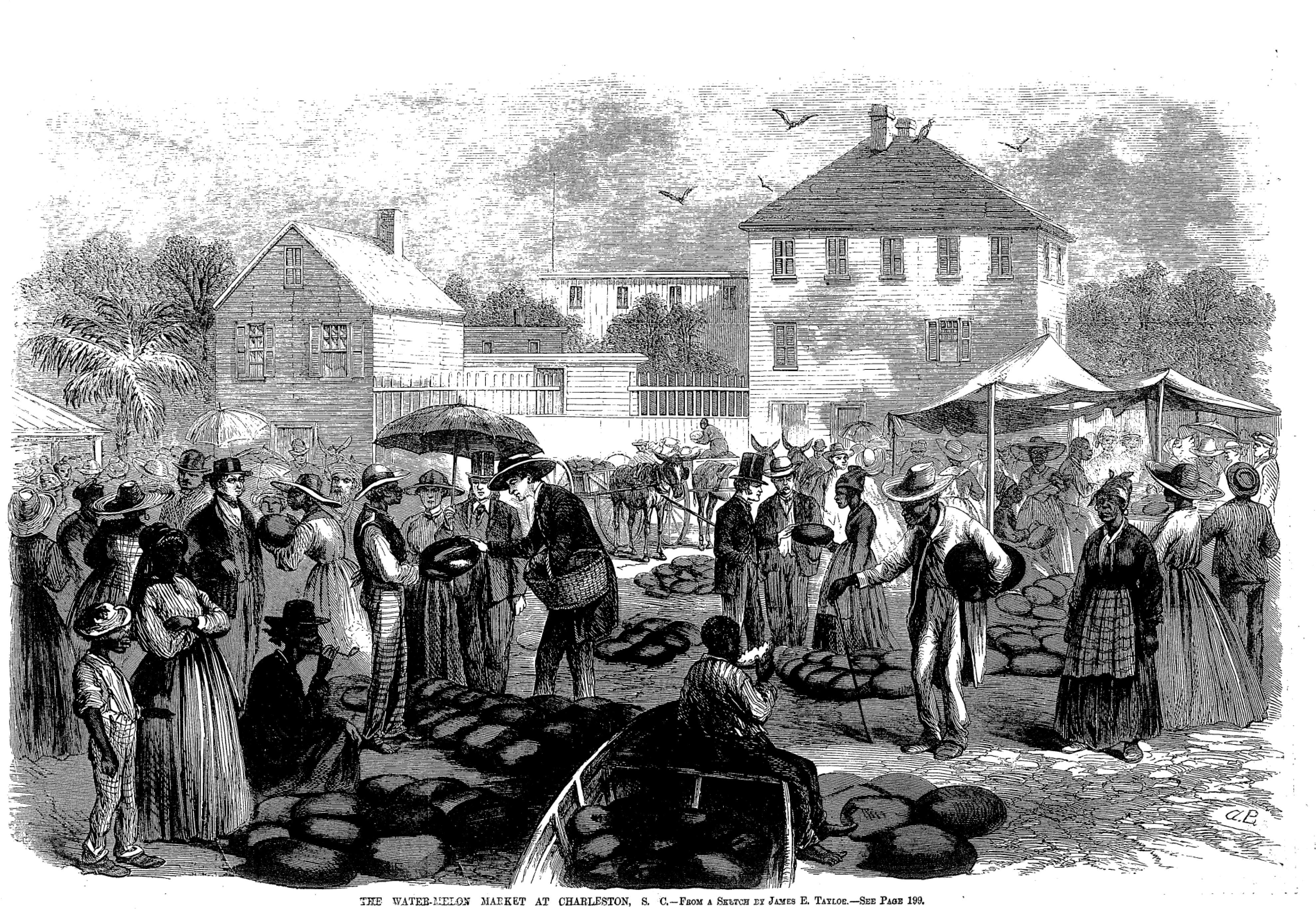 This illustration, appearing in Frank Leslie's Illustrated Newspaper in 1869, is believed to be the first published caricature of blacks reveling in watermelon. The adjoining article explained, "The Southern negro in no particular more palpably exhibits his epicurean tastes than in his excessive fondness for watermelons. The juvenile freedman is especially intense in his partiality for that refreshing fruit."